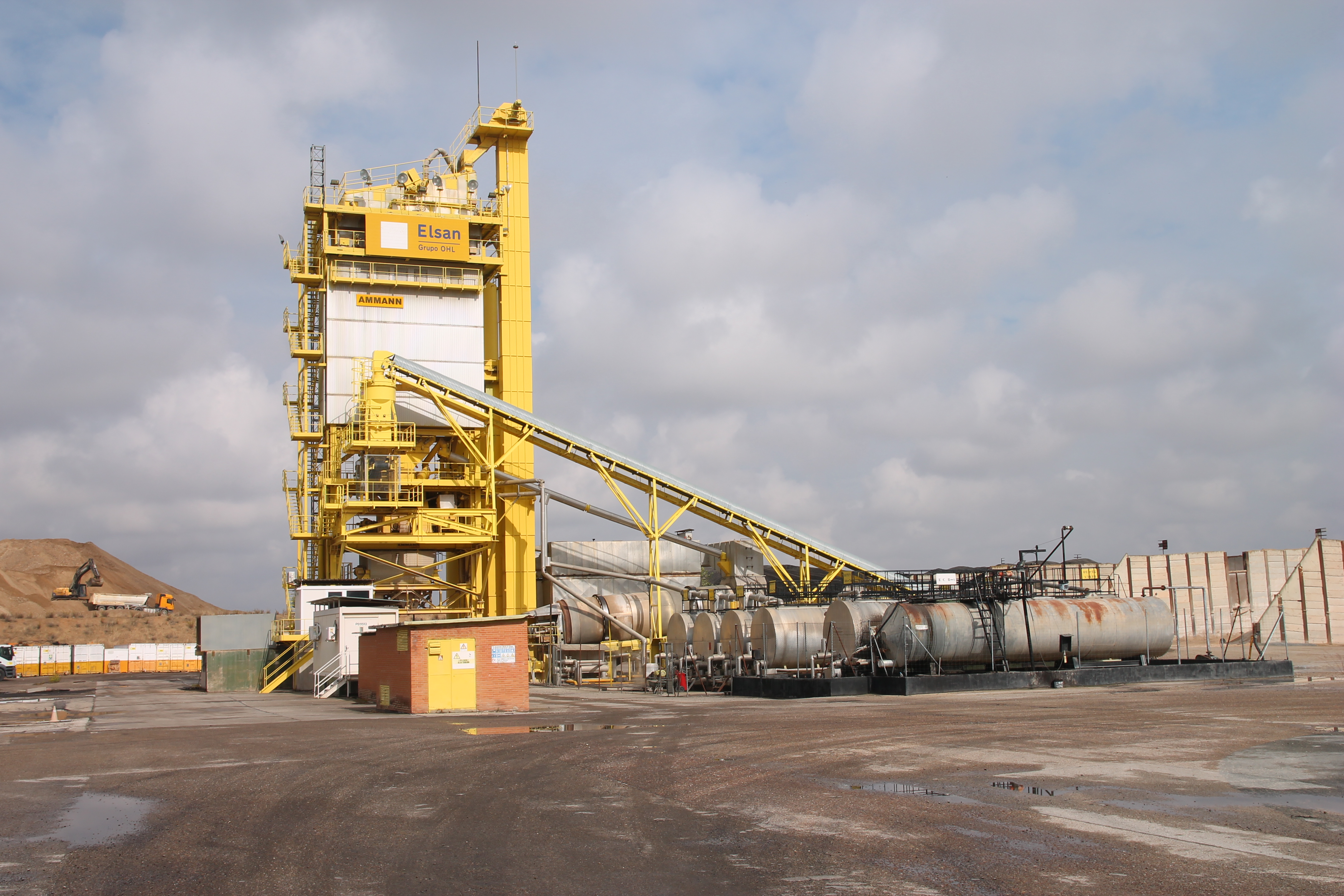 Asphalt plant in Arganda del Rey